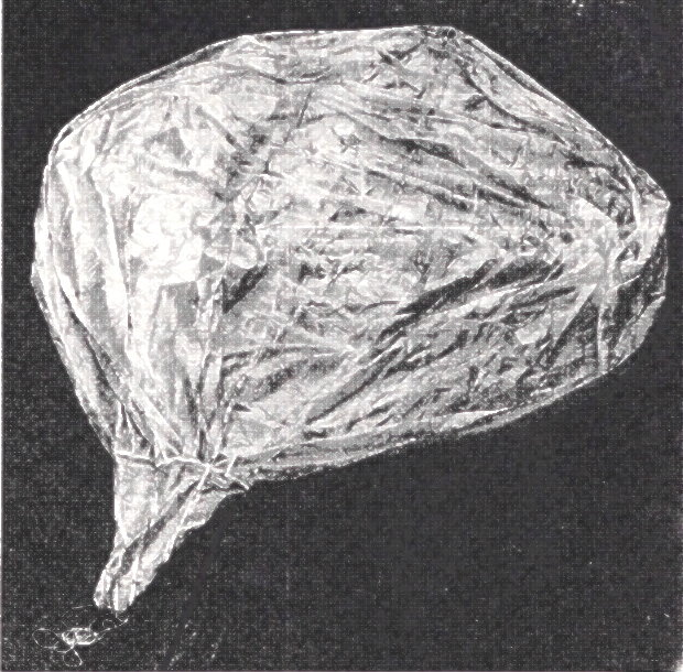 balloon envelope